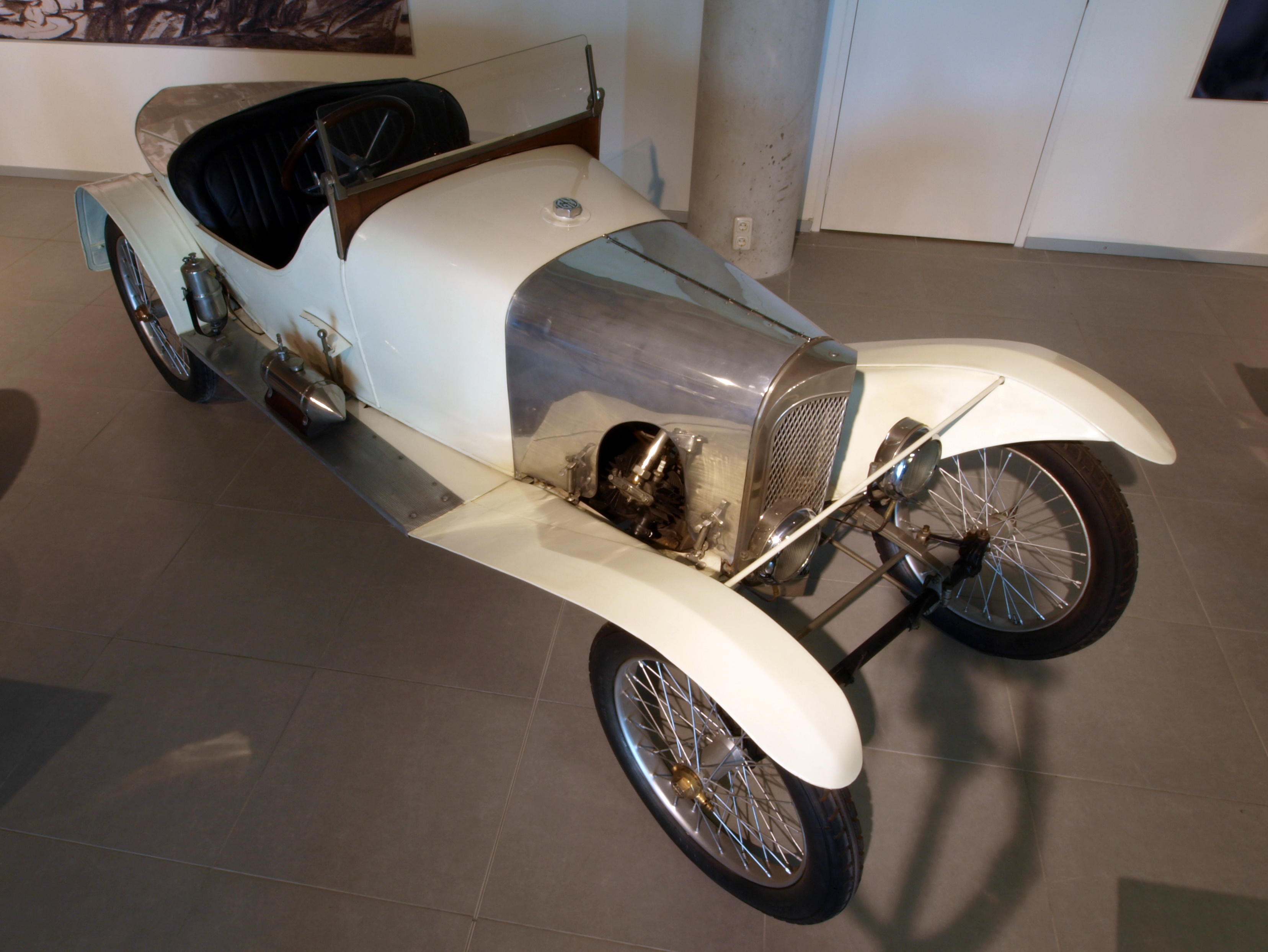 Photographed at the Louwman museum / Louwman Collection, The Netherlands.